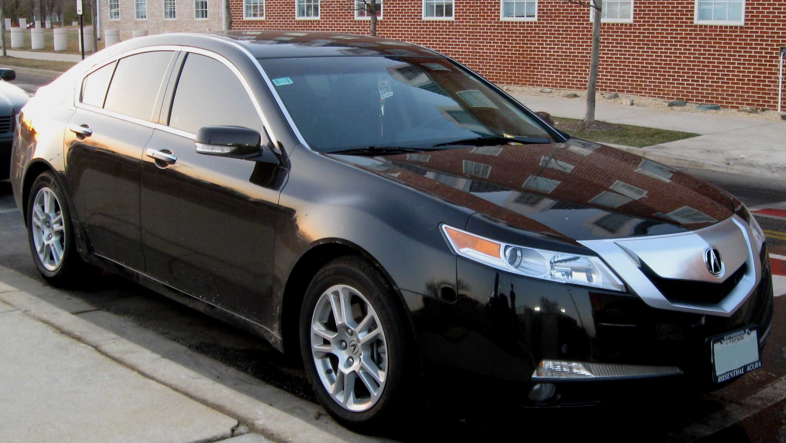 2009 Acura TL photographed in College Park, Maryland, USA.